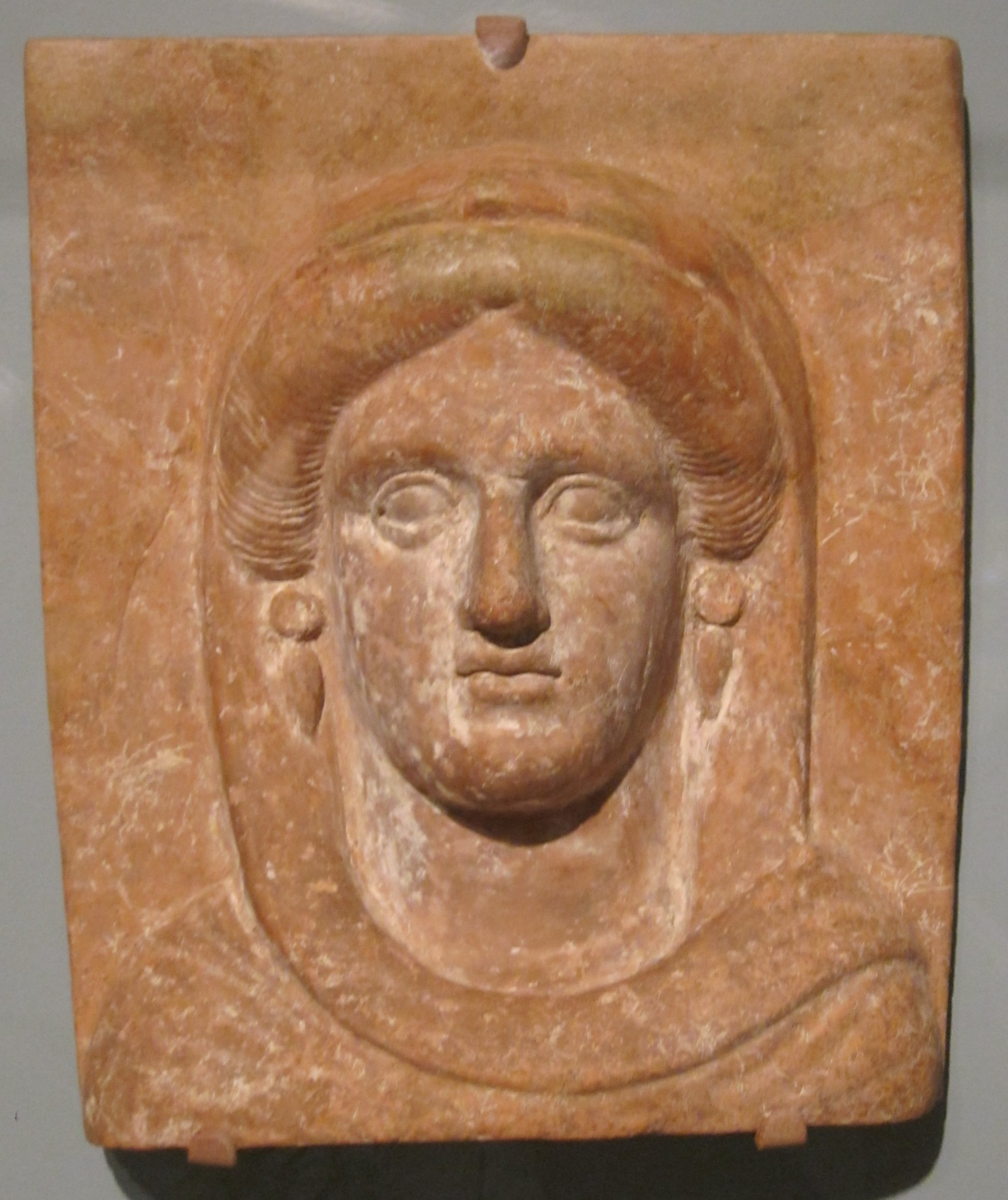 Relief plaque with the bust of a female figure (probably Demeter), Greece, Myrina, 4th century BCE, Honolulu Academy of Arts, Gift of Edith Porada and Hildegard Randolph in memory of their mother Catherine de Porada, 1985 (5347.1)